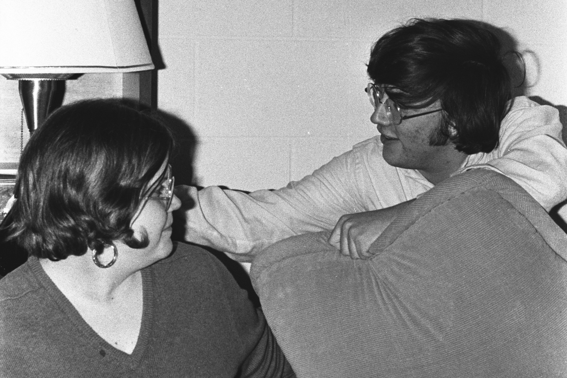 Charlaine Harris novelist and Ron Blade minister of a Presbyterian congregation